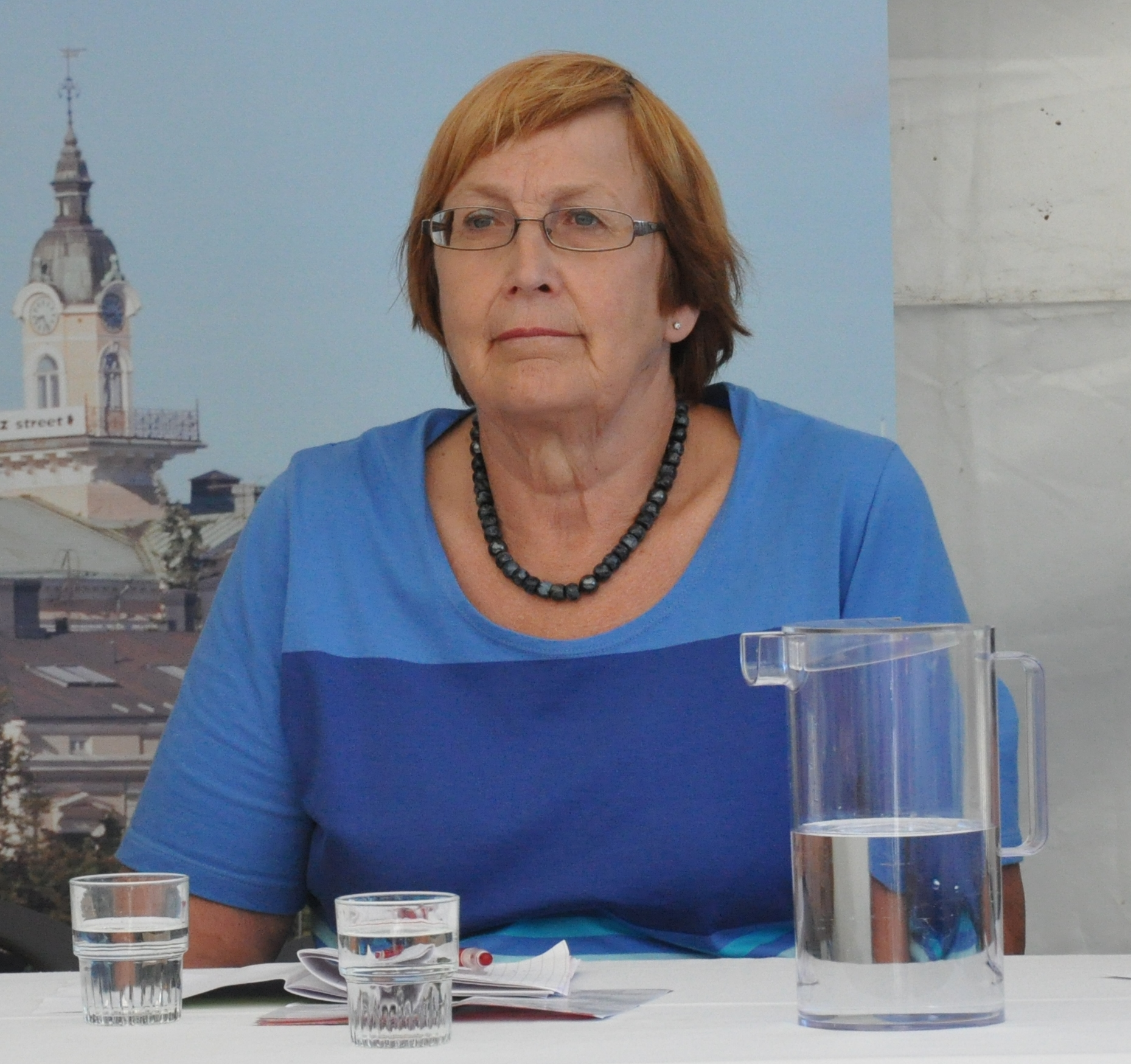 Finnish psychologist Pirkko Lahti at the SuomiAreena 2009 event in Pori, Finland.